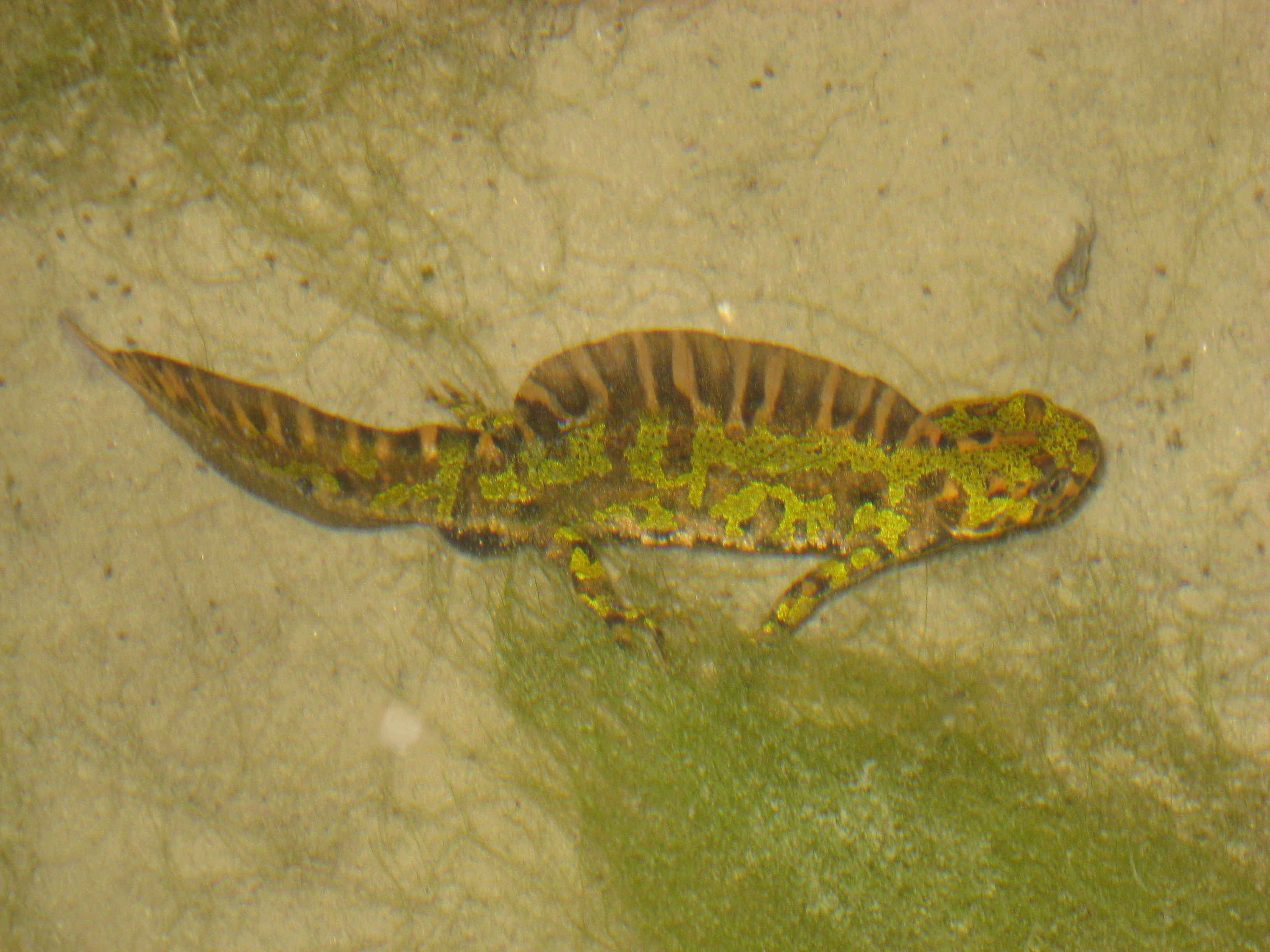 Newt